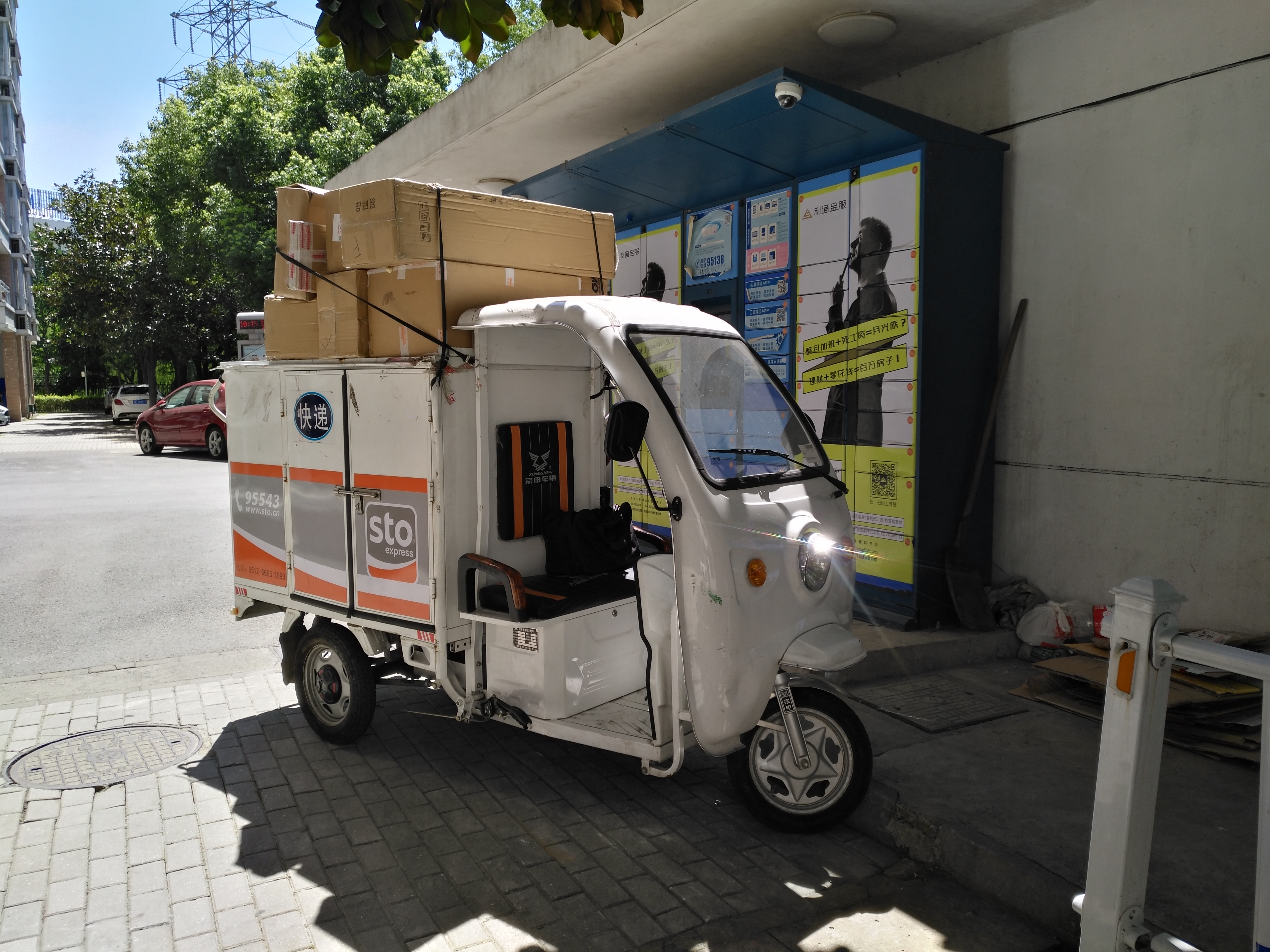 A Sto Express delivery vehicle in Suzhou, Jiangsu, China